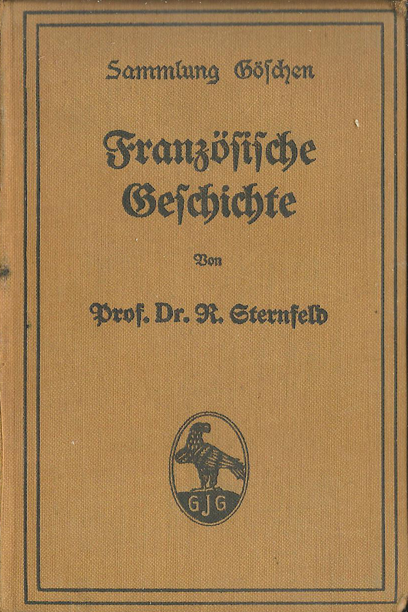 Front cover of Richard Sternfeld's book Französische Geschichte (French history), Volume 85 of the Goeschen collection